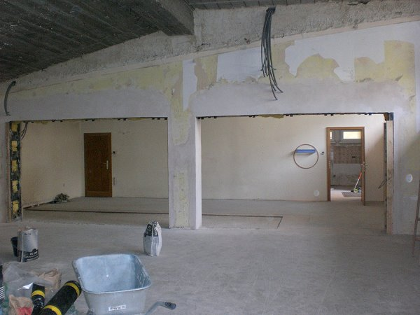 Church hall of the Protestant Saint Paul church (Evangelische Pauluskirche) in Landstraße, Vienna during a conversion in 2010